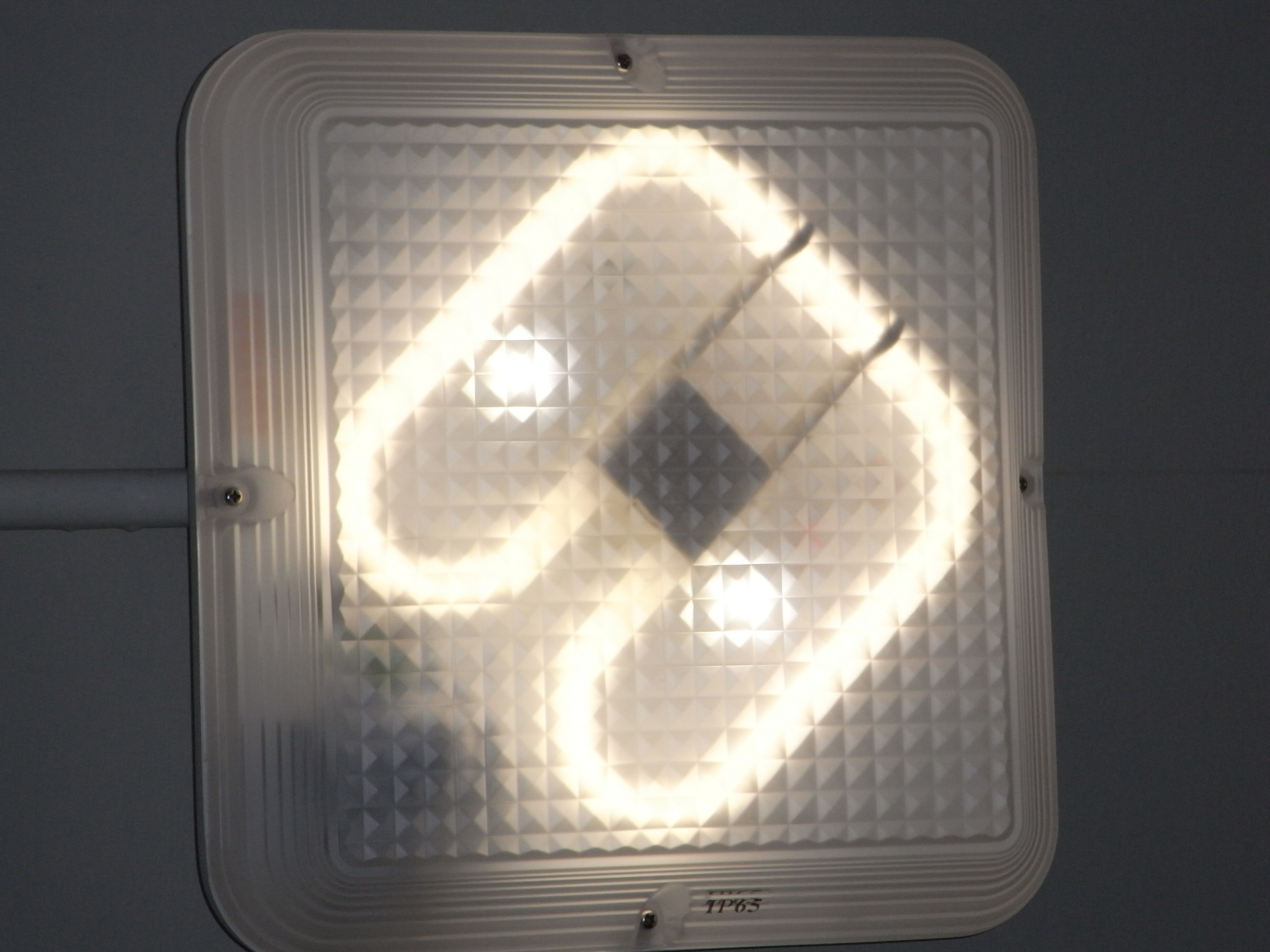 Fluorescent light fixture.灣仔駱克道市政大廈後樓梯, 人聲感應開關的